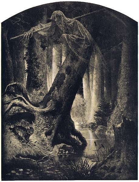 Puszcza z cyklu Lithuania Artur Grottger (1837–1867) Description Polish painter Date of birth/death11 November 183713 December 1867Location of birth/deathOttyniowice in the region of PodoliaAmélie-les-Bains-Palalda, FranceAuthority control VIAF: 29805680 LCCN: n84081061 GND: 118719017 BnF: cb14975212g ULAN: 500009738 ISNI: 0000 0001 1614 3768 WorldCat